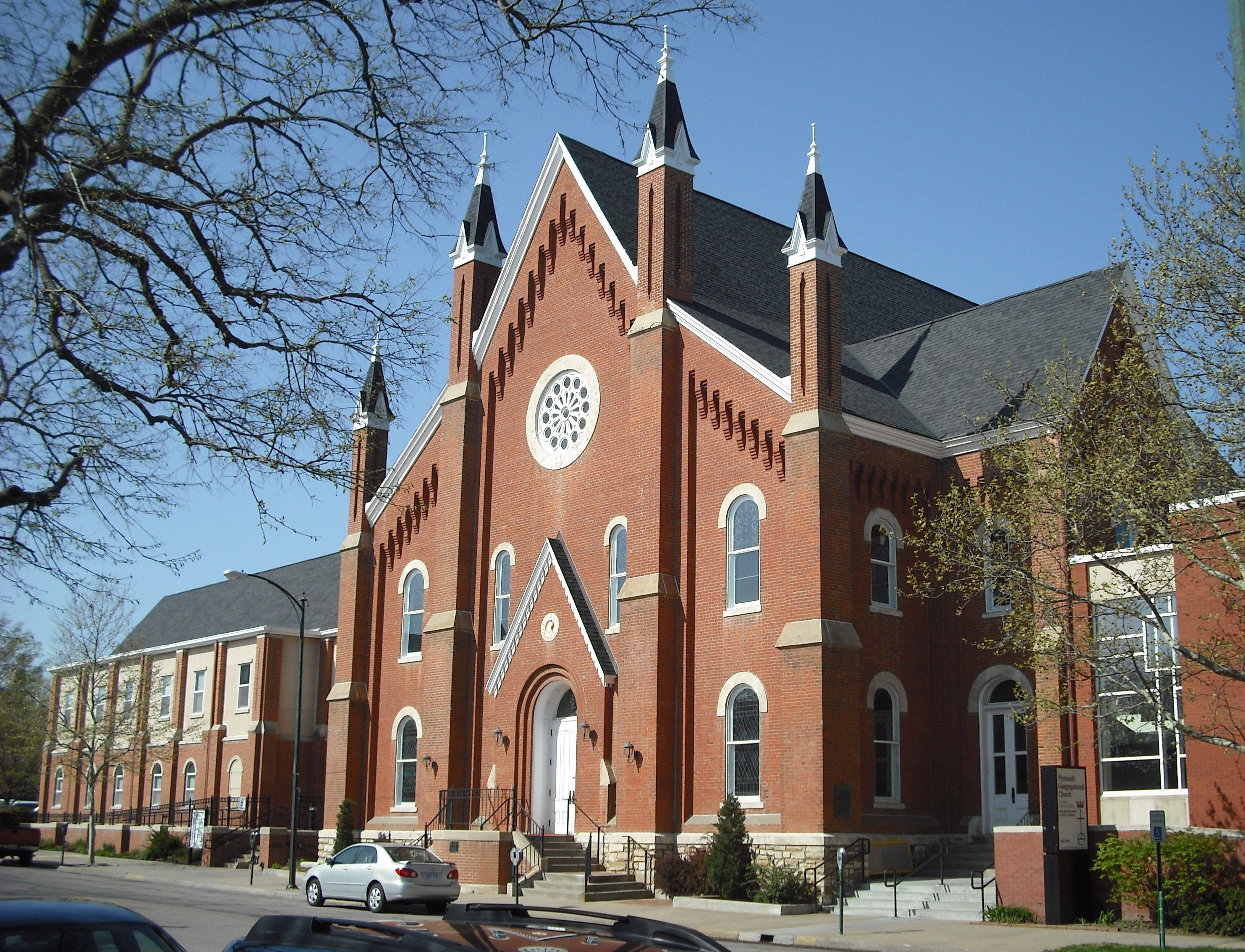 A newer picture of the Plymouth Congregational Church in Lawrence, Kansas. Listed on the National Register of Historic Places, built in 1870. Church was originally founded in 1854 shortly after the city was founded. Located on Vermont Street between 9th & 10th Streets.